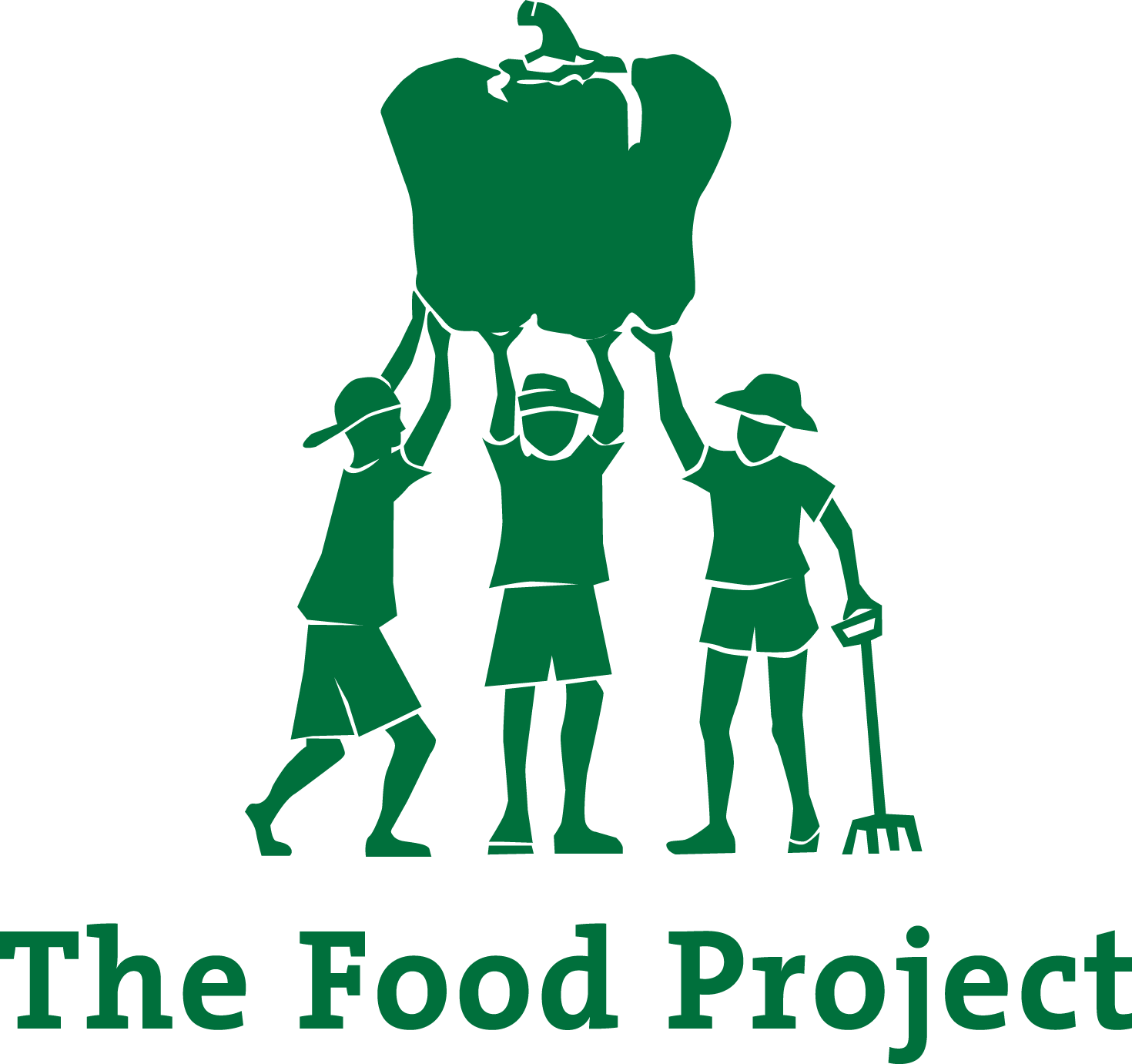 The Food Project logo